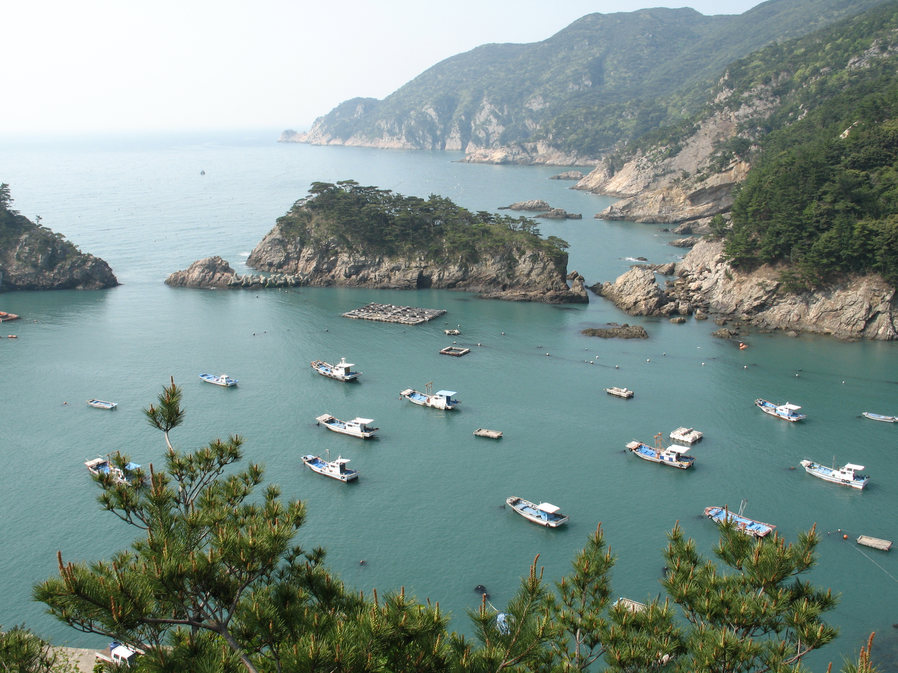 Heuksando Island is an island in the Yellow Sea located off 97.2km from the southwest coast of Mokpo, Jeollanam-do, South Korea.